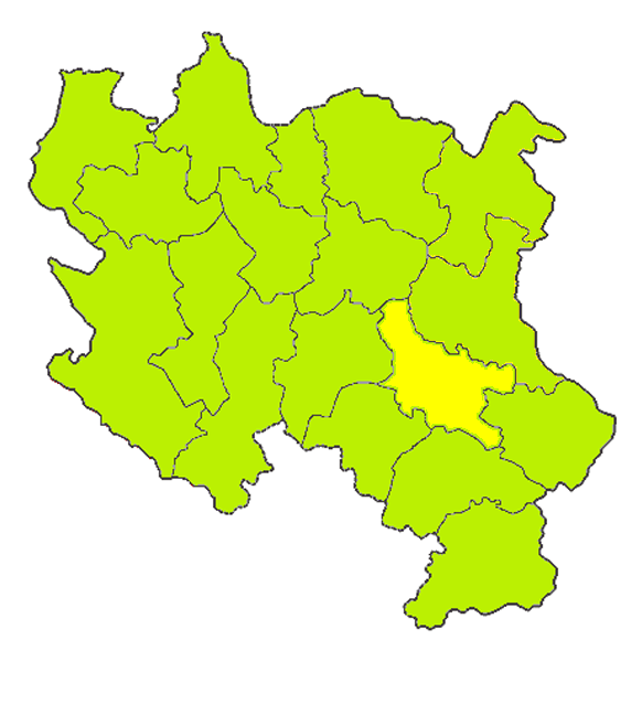 Map of Nišava